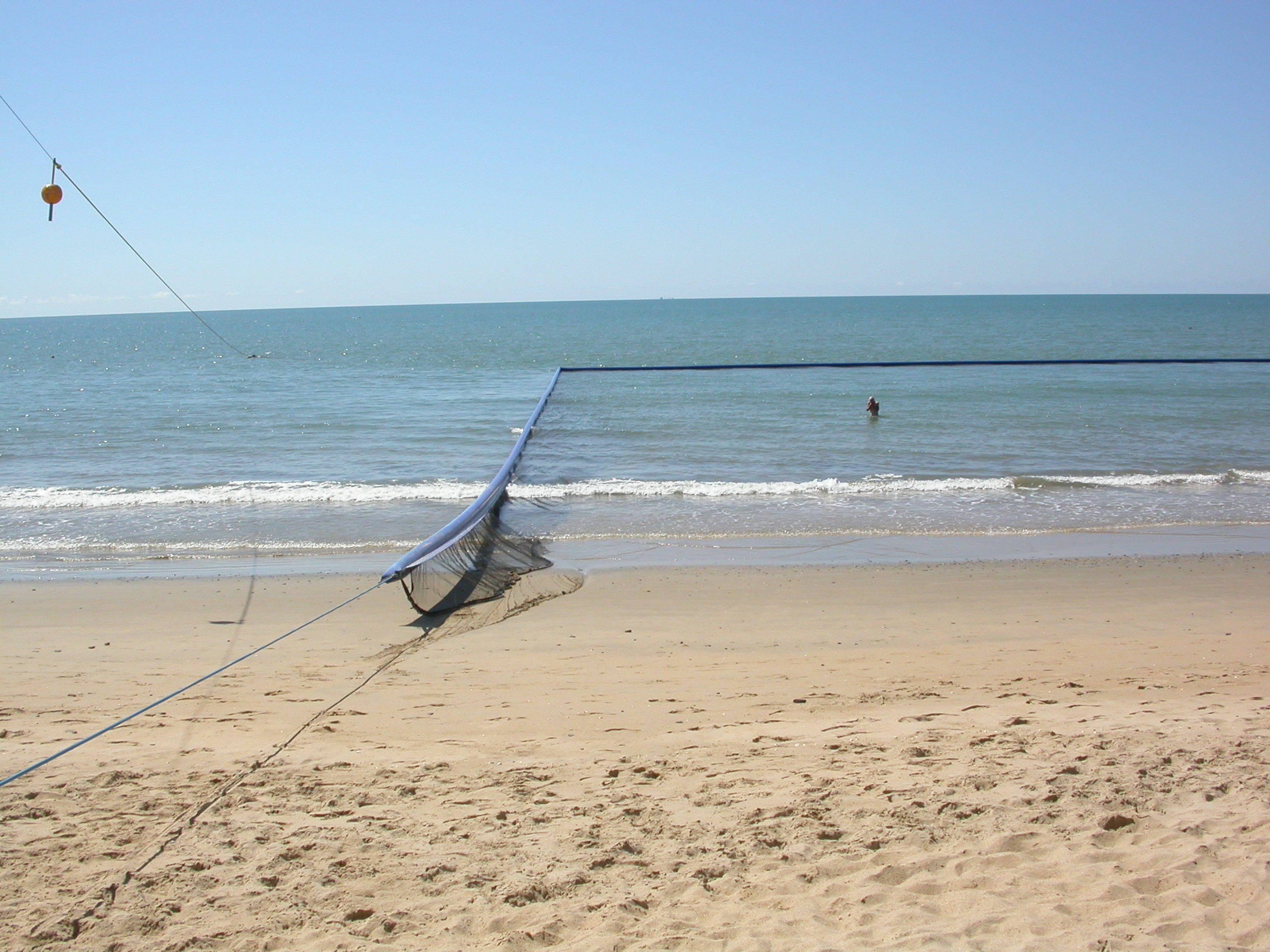 Jellyfish netted enclosure at Ellis Beach, Cairns, Queensland, Australia. Taken by me on a trip in 2003.